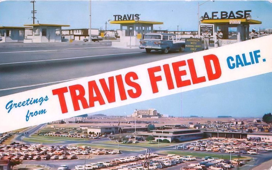 Travis Air Force Base - Welcome To